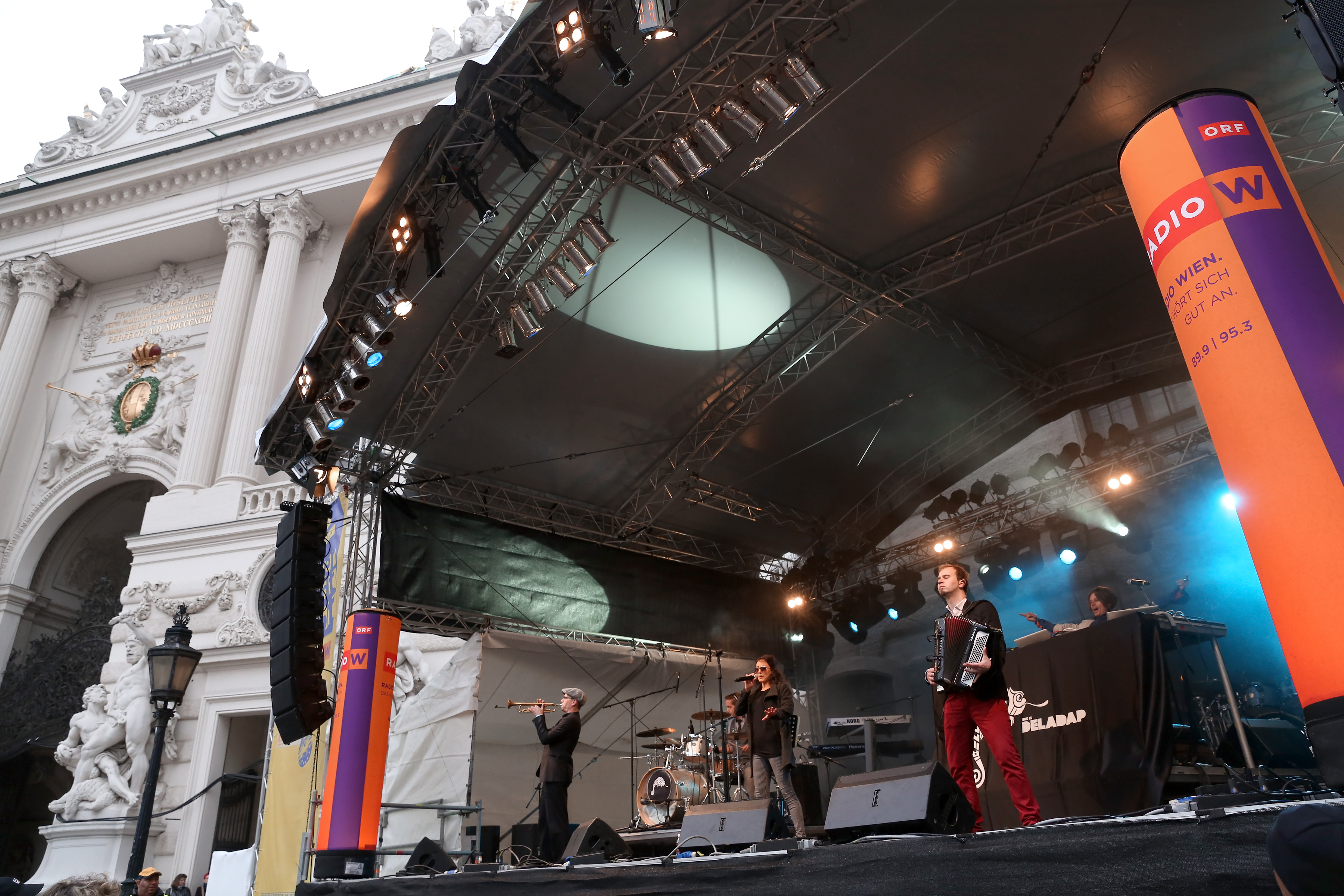 DelaDap - concert on Michaelerplatz during Wiener Stadtfest (Vienna City Festival) 2014 (Vienna, Austria).